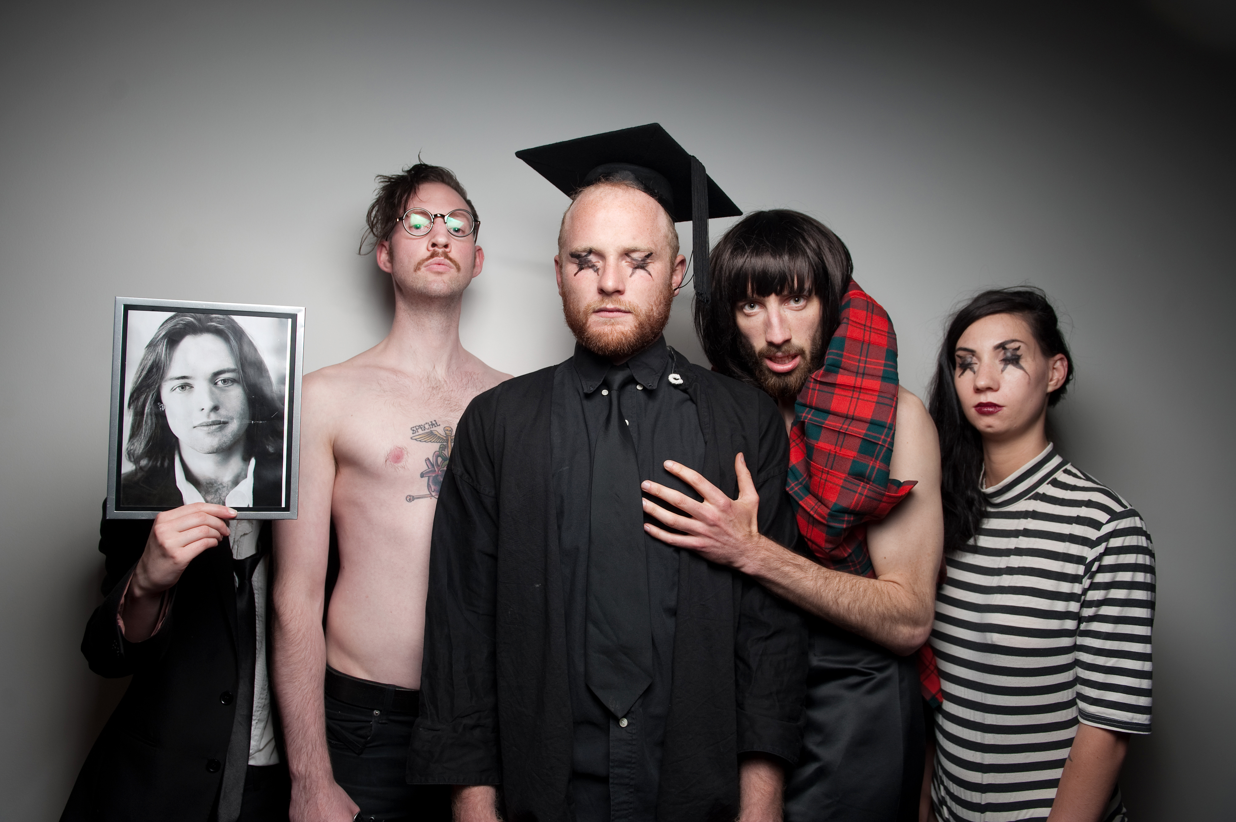 MKA Theatre of New Writing Pop Up Adelaide Performers; Shown: Conor Gallacher, Tobias Manderson-Galvin, Tom Dent, Mark Wilson, Kerith Manderson-Galvin, Photo by Sarah Walker